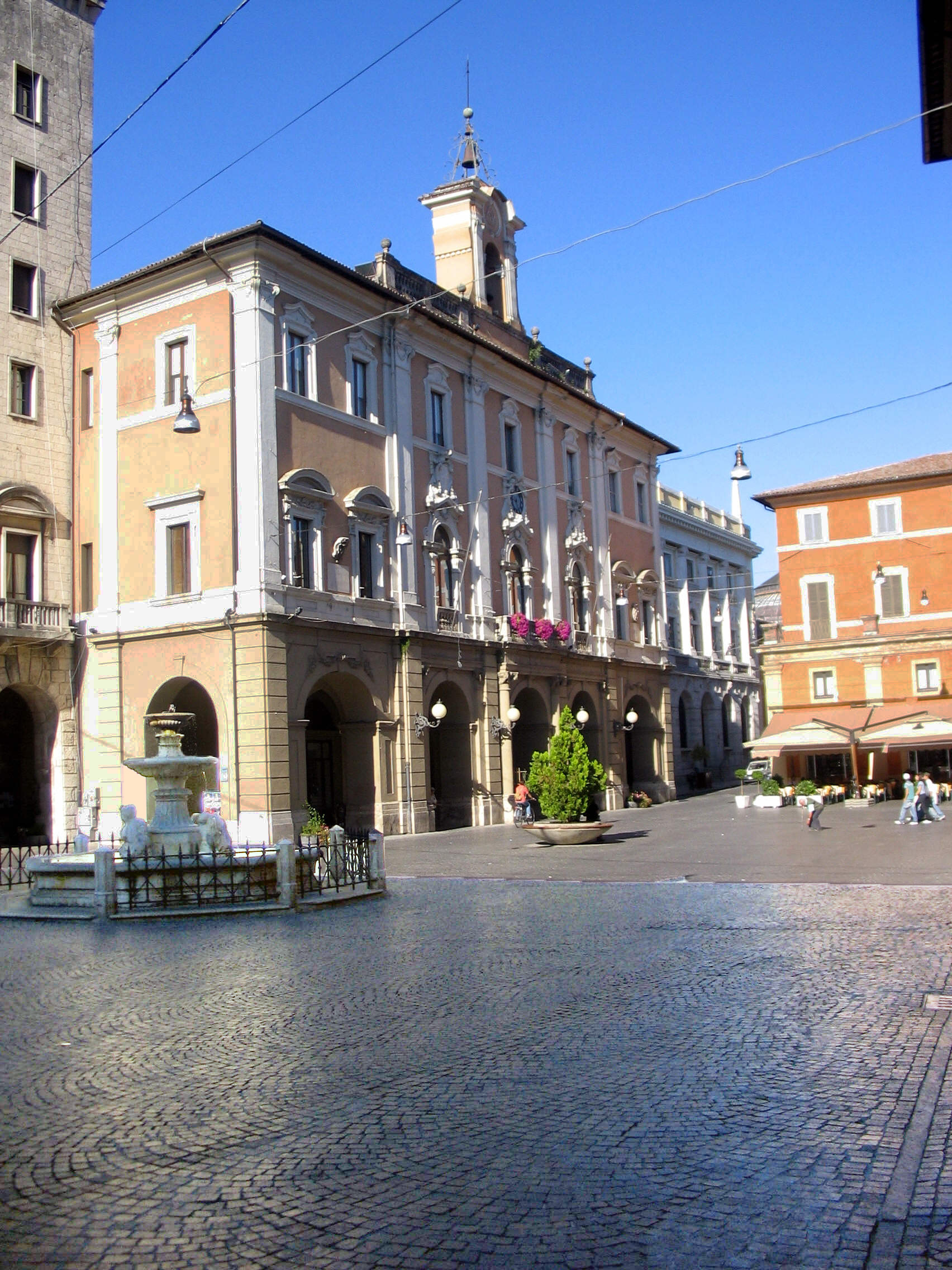 Square Vittorio Emanuele - Rieti, Lazio, Italia